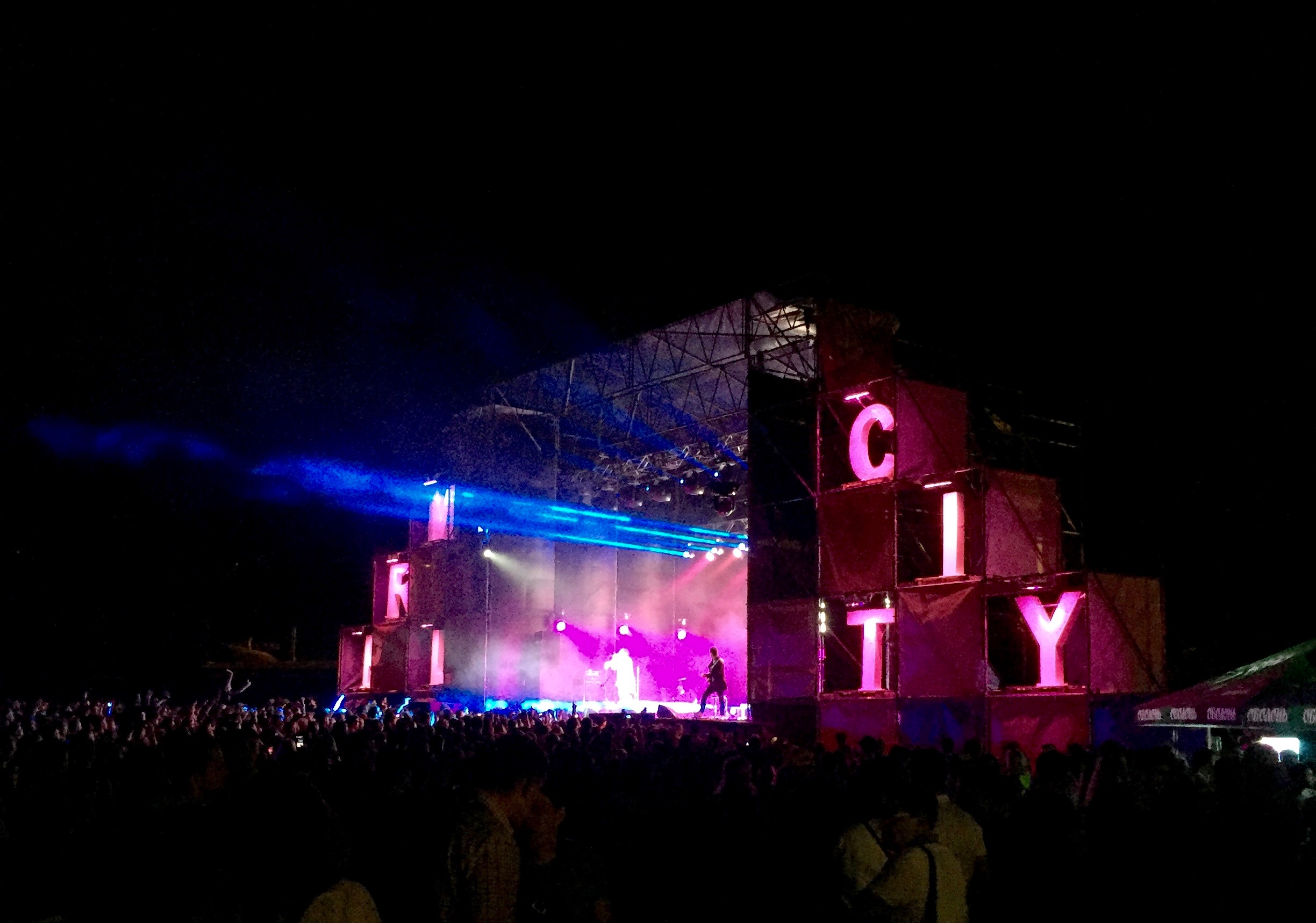 Main scene MRPL FEST 2017